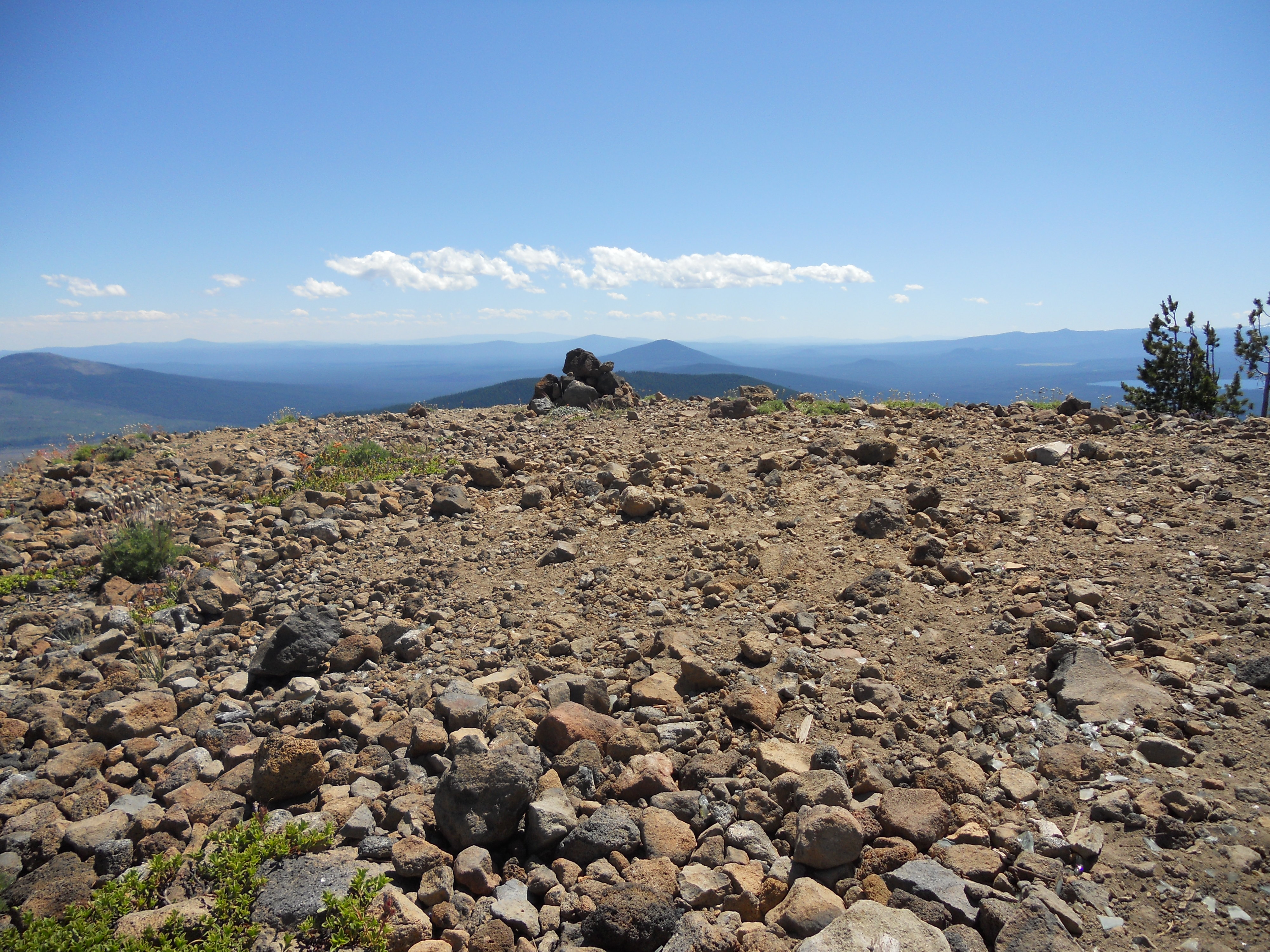 A cairn at the summit of Maiden Peak, in the Oregon Cascades